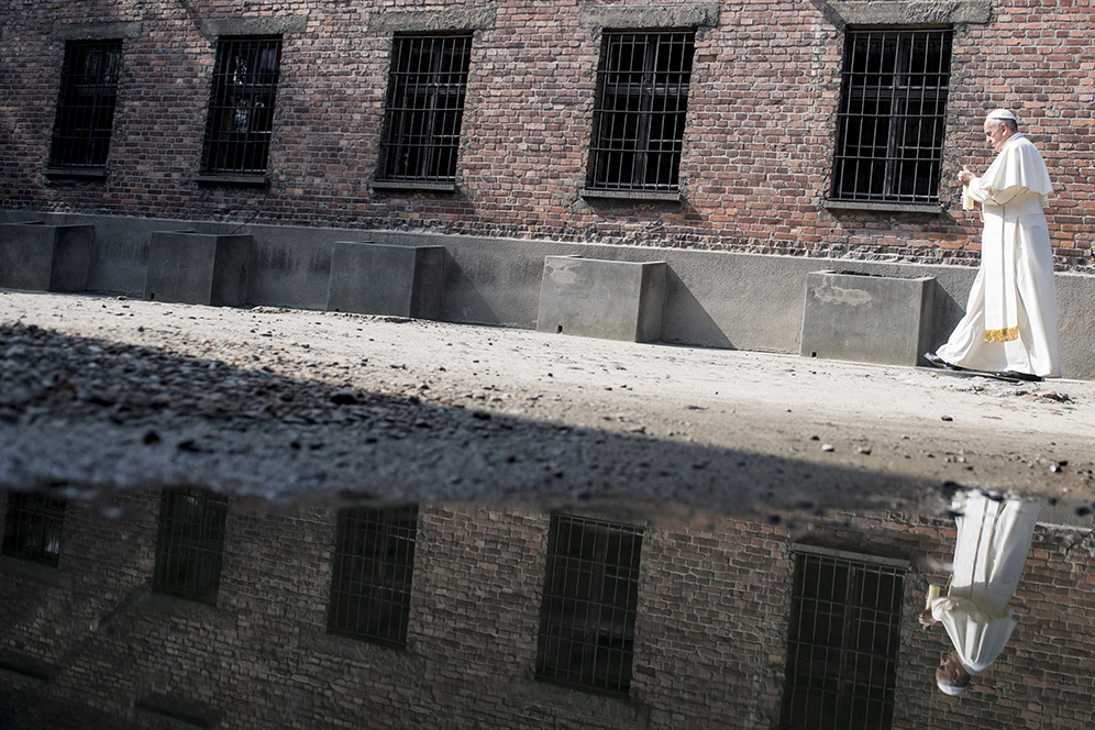 2016.07.29, Oświęcim | Premier Beata Szydło powitała w piątek Ojca Świętego Franciszka na terenie byłego obozu Auschwitz-Birkenau. Premier i papież wspólną modlitwą i zapaleniem zniczy uczcili pamięć ofiar Holokaustu. fot. P. Tracz / KPRM